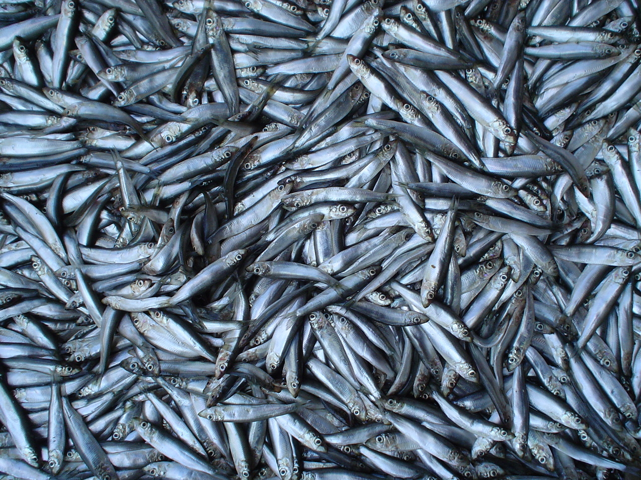 Salted sprats (Sprattus sprattus) at Pryvoz Market in Odessa, Ukraine